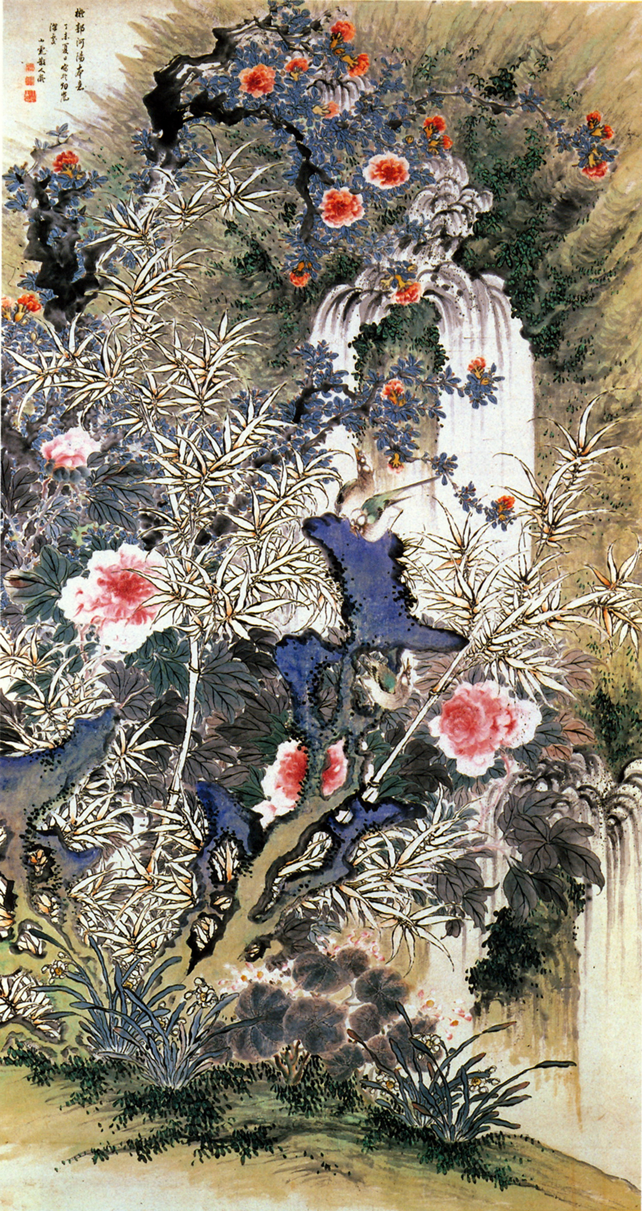 Birds and Flowers,colors on paper,hanging scrol,The Museum of Modern Art Shiga